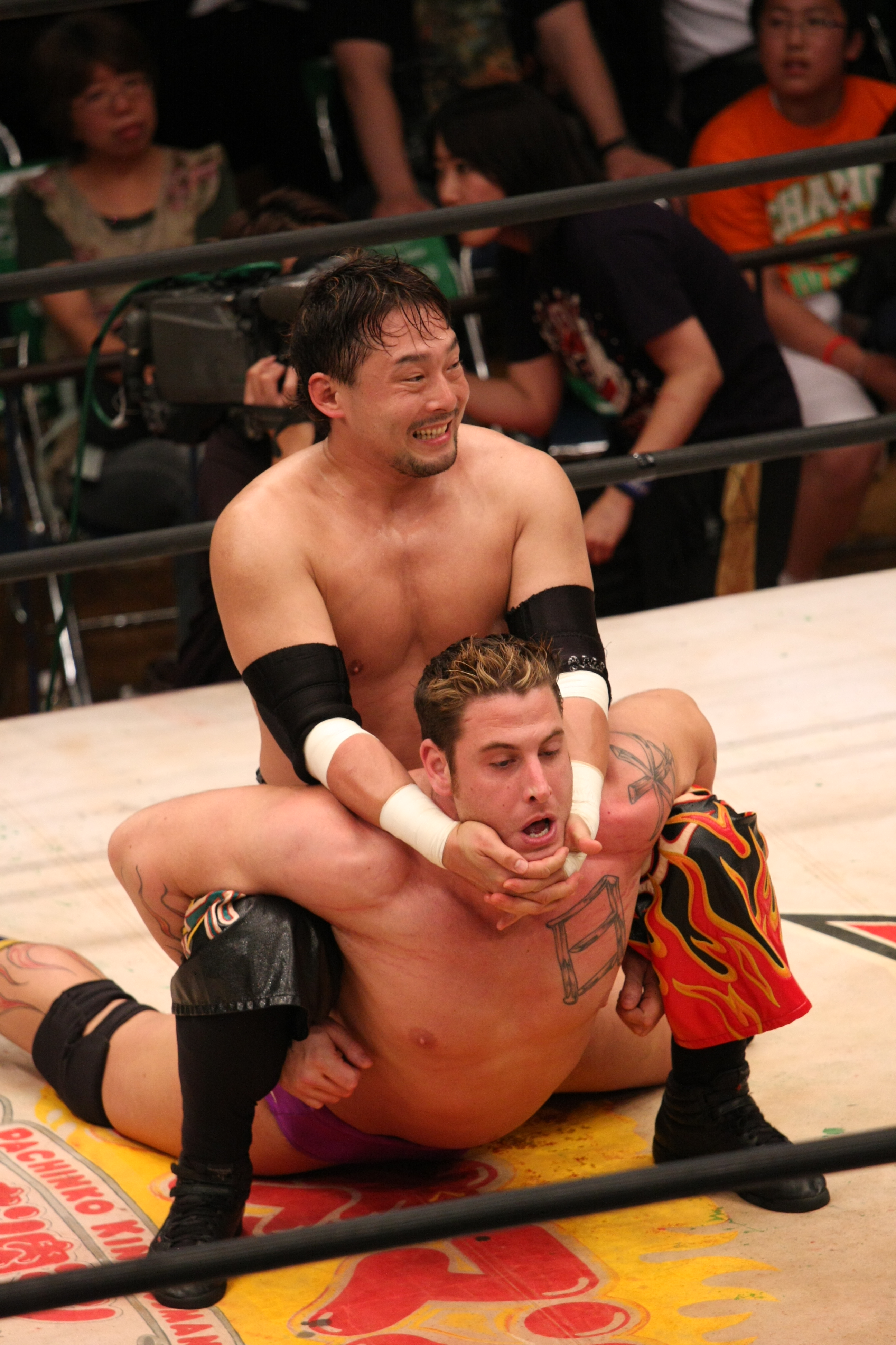 Professional wrestler Tajiri applies a camel clutch hold on Rene Bonaparte in May 2009.